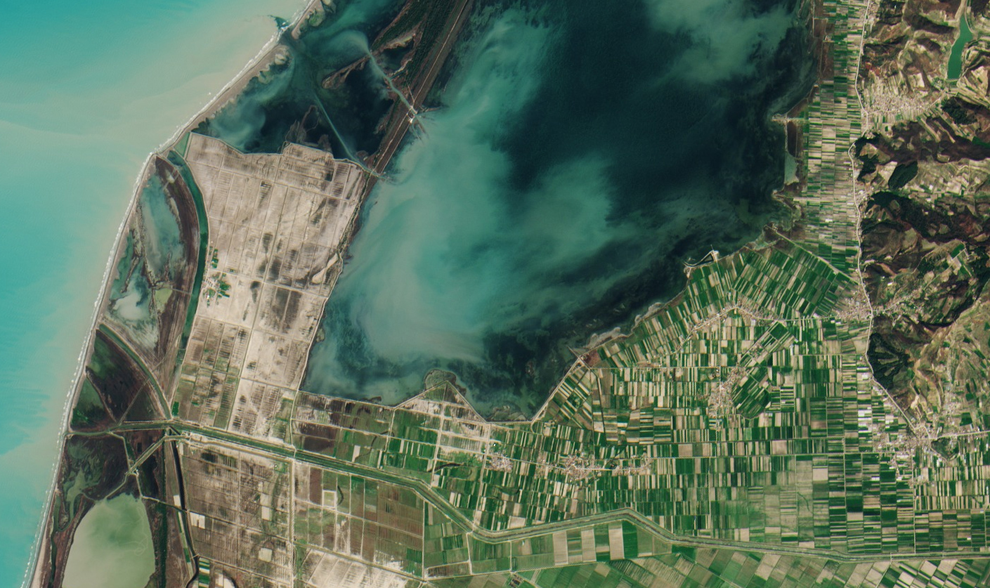 This image of the Karavasta Lagoon in Albania is a subset from the first acquisition by Sentinel-2B on 15 March 2017 - extract of the original image with the villages of the former Remas Community on the southern End of the lagoon: Gur and Babujnë at the foot of the hills, Mucias, Remas and Karavasta in the green fields to the West, Adriatik in the sandy part between the lagoon and the sea.